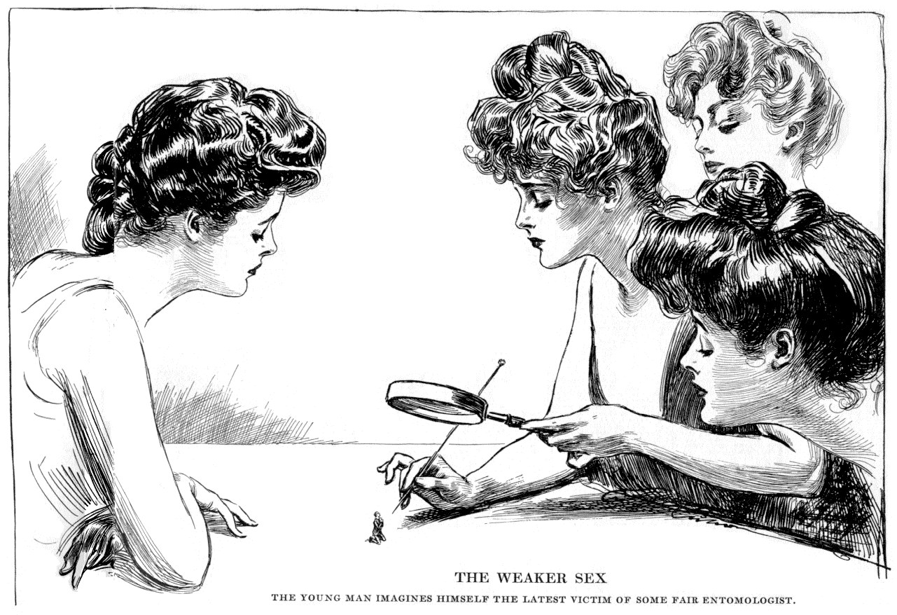 "The Weaker Sex: The young man imagines himself the latest victim of some fair entomologist"